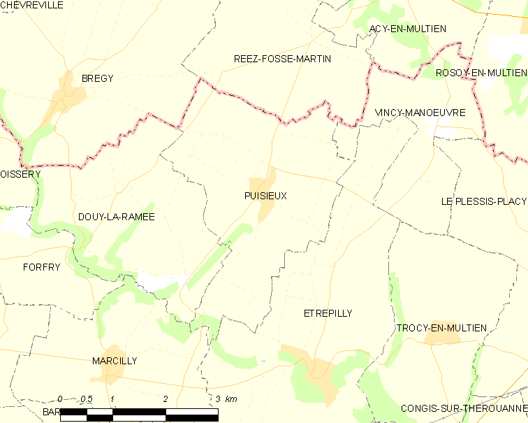 Map of French municipality Puisieux